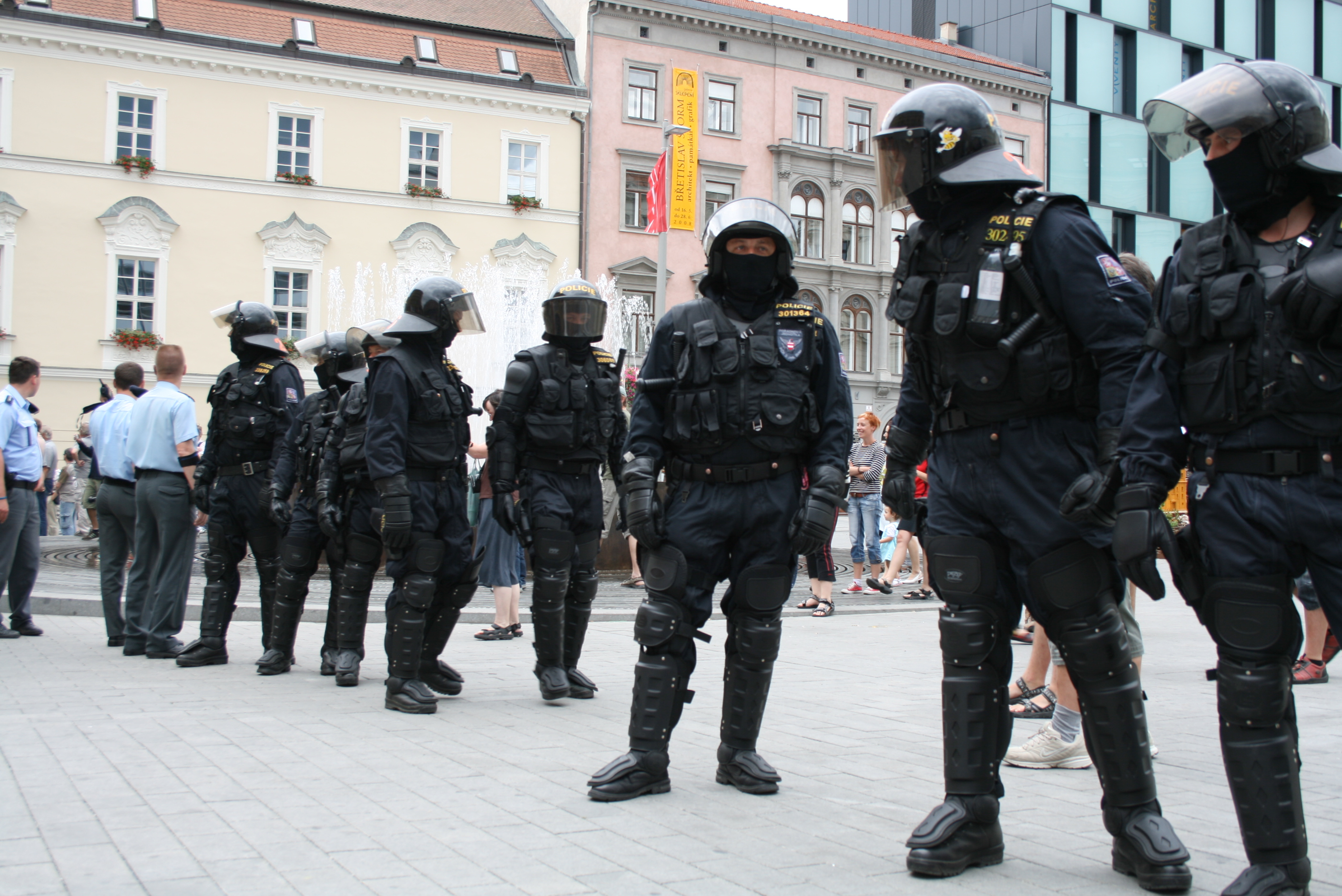 Czech Special disciplinary force during Queer Parade 2008 in Brno, Czech Republic.